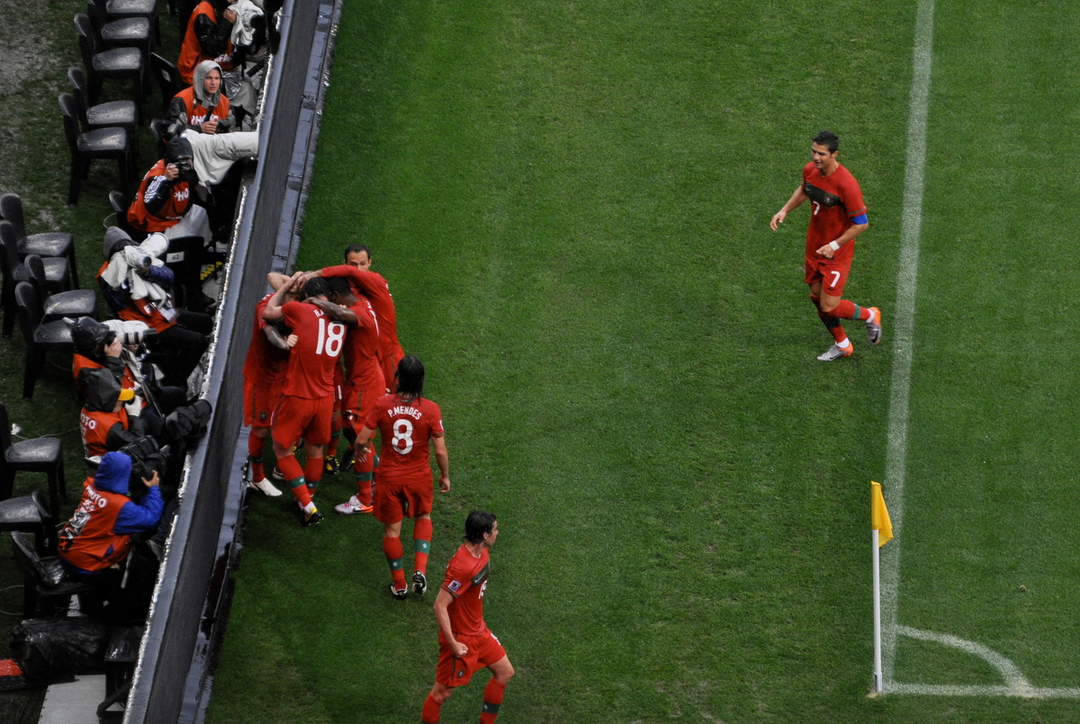 Portugal's 1st goal!